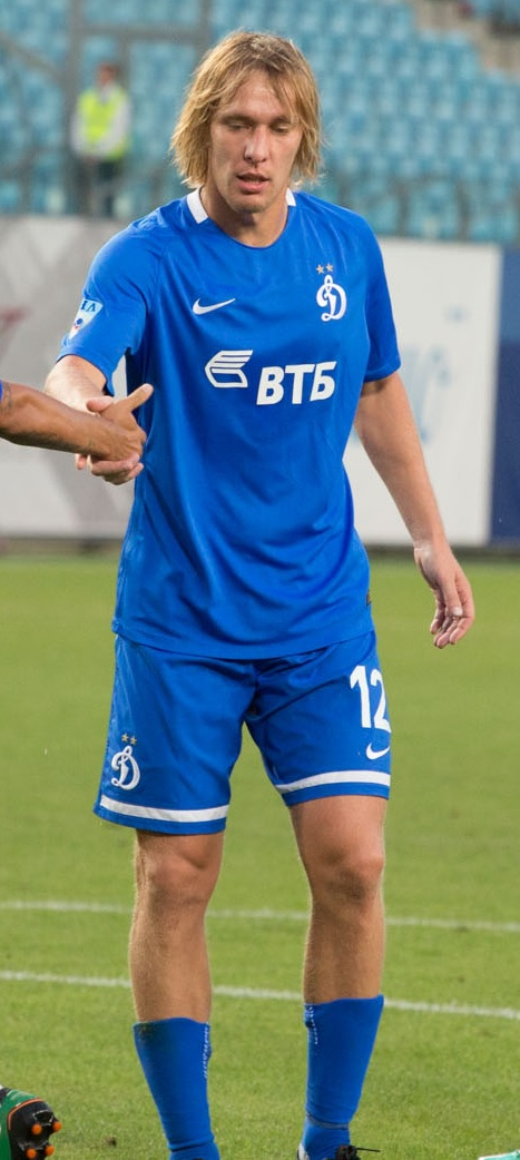 Dmitri Belorukov playing for FC Dynamo Moscow against FC Volgar Astrakhan.